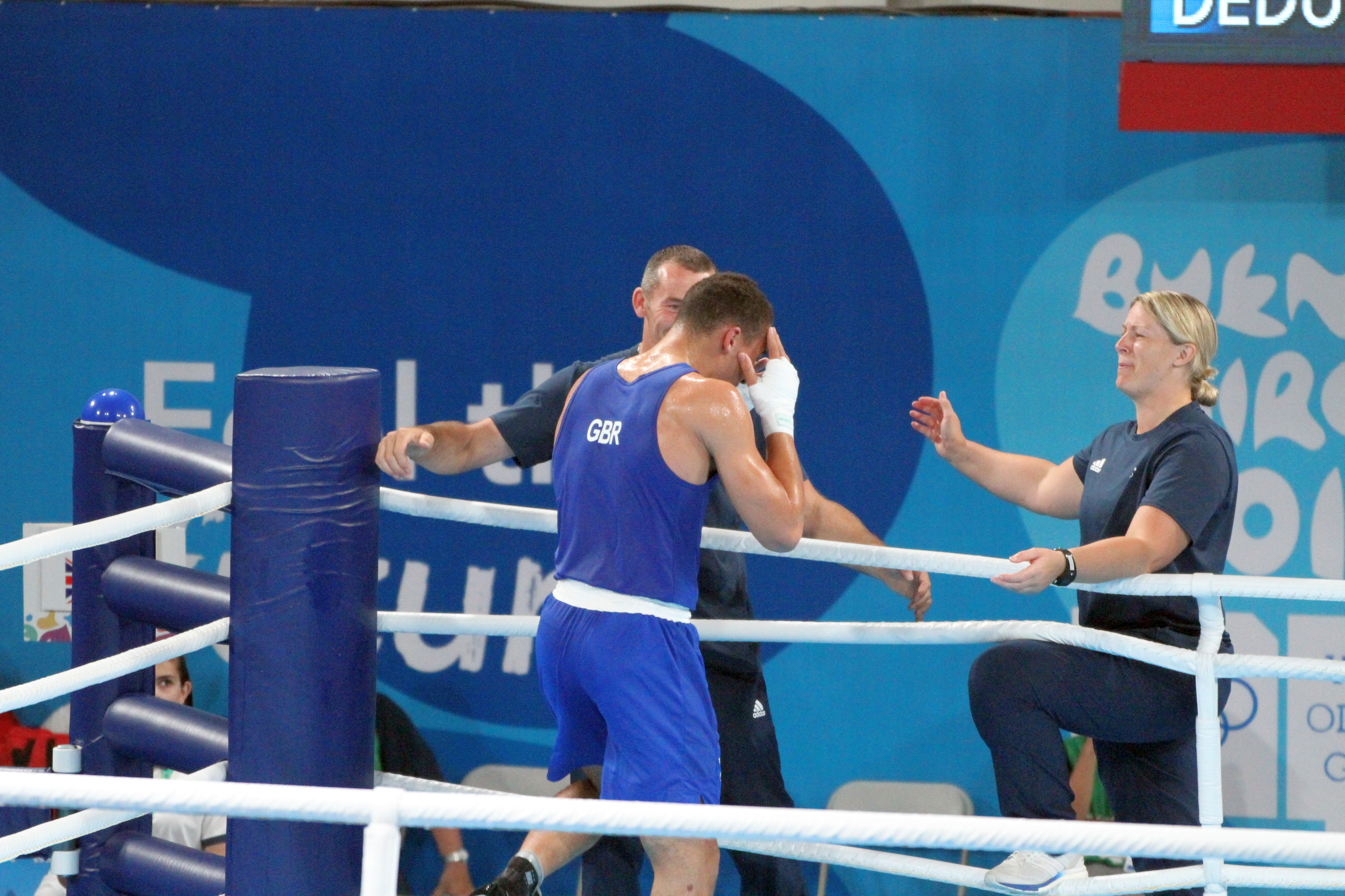 Boxing at the 2018 Summer Youth Olympics on 18 October 2018 – Gold Medail Match light heavyweight Boys - Karol Itauma (Great Britain, blue) beats Ruslan Kolesnikov (Russia, red) 4-1; Referee is Alejandro Barrientos (Cuba).